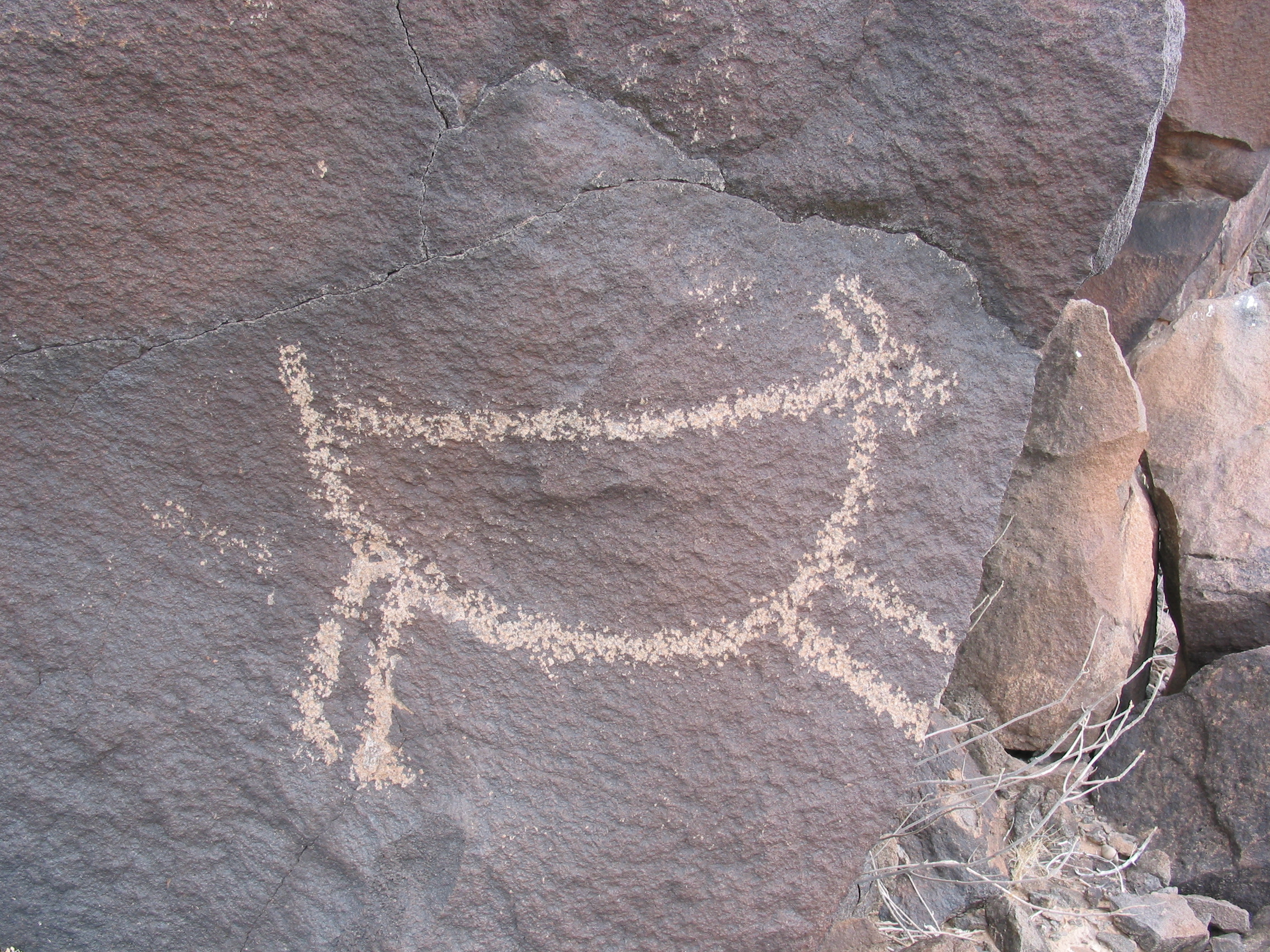 Juan Bautista de Anza National Historic Trail commemorates Spanish Commander Anza’s route taken on the expedition to bring colonists to the San Francisco bay area in 1775-1776. In exploring the trail today, one can experience diverse deserts, mountains, and coastal areas, and learn the historical roles of American Indian and Spanish cultures in the settlement of Arizona and California. The Juan Bautista de Anza National Historic Trail spans two BLM states: Arizona - California